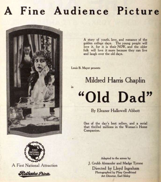 Advertisement for the American drama film Old Dad (1920) with Mildred Harris, on page 32 of the November 13, 1920 Exhibitors Herald.